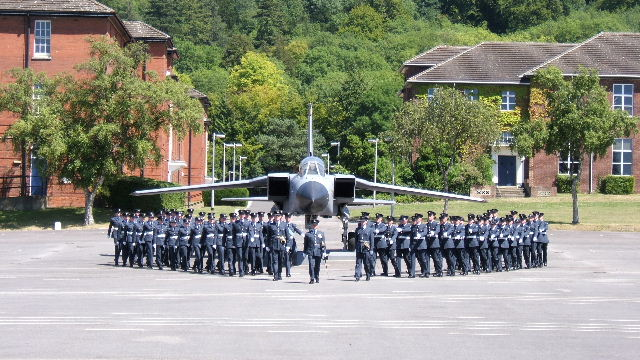 Passing Out Parade, RAF Halton On the 19th. July 2006, my daughter took part in this Passing Out Parade, at RAF Halton in Buckinghamshire. It was one of the hottest days of the year, but in Full Dress, out in the mid-day sun for nearly two hours, they put on a great display, and I was one of many proud parents who came to celebrate their achievement.